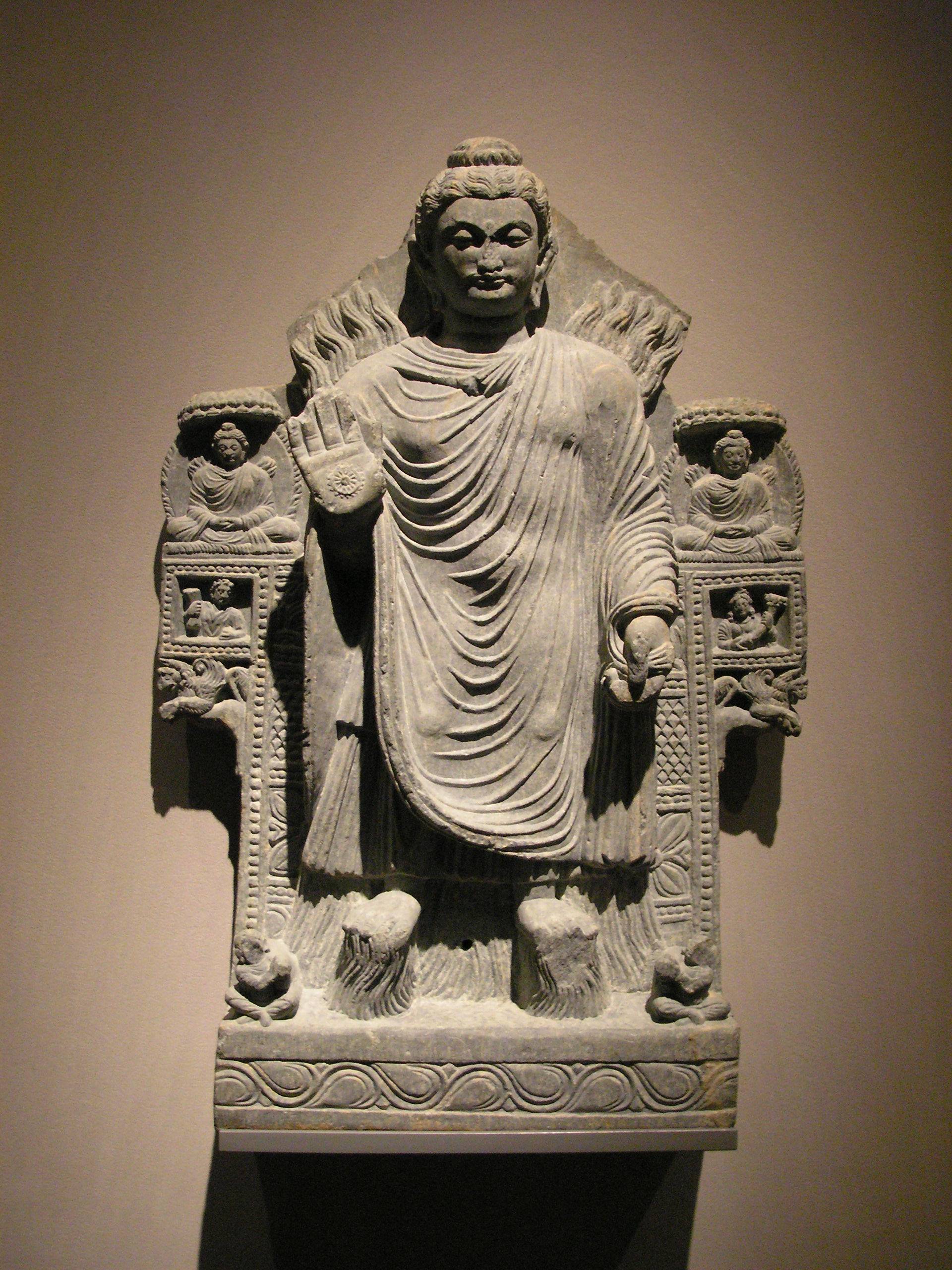 The Buddha shows miracles. Gandhara, 3rd century CE. schist, height 74.4 x 49.7 cm. Located in the Museum für Indische Kunst, Berlin-Dahlem.